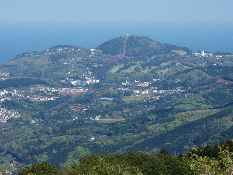 Mount Komuro Scoria cone, Izu-Tobu volcano field, Ito city, Shizuoka pref., Japan.